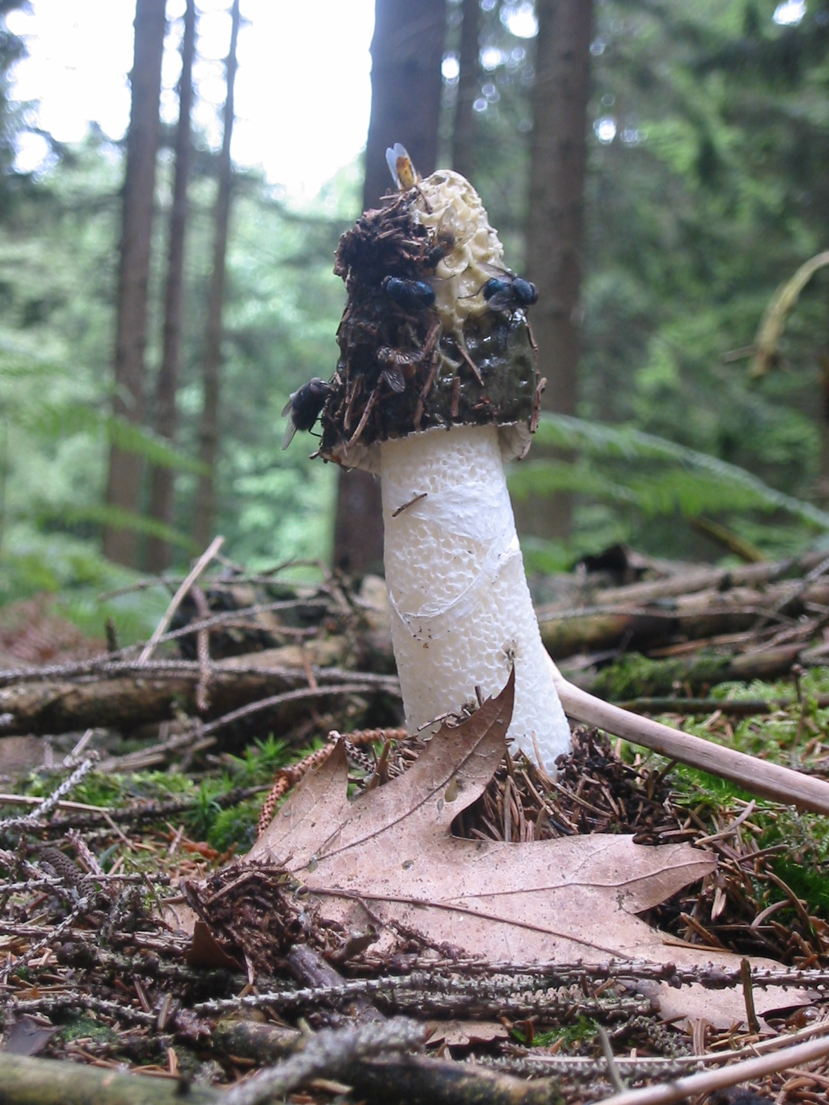 Phallus impudicus